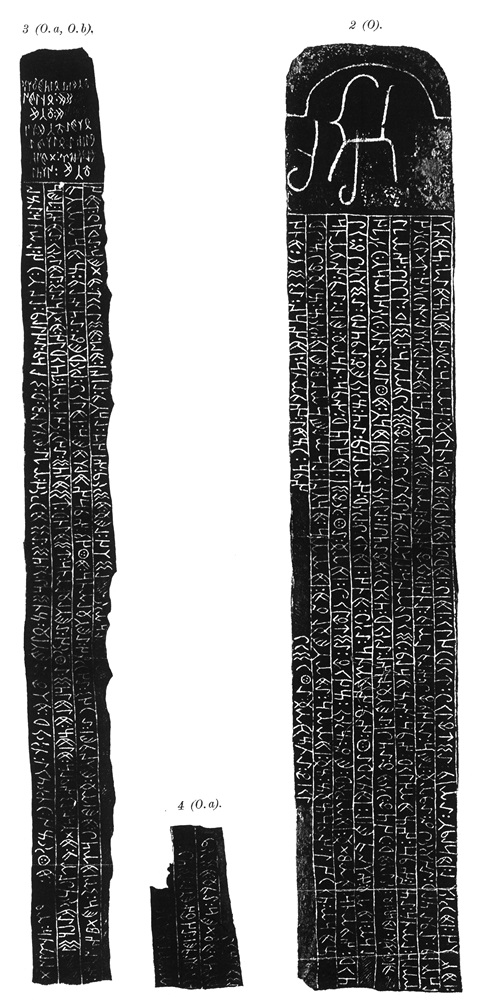 “The Ongi monument”, “The Tarimalyn hoshuu monument”, “The Elteris (Kutlug) kagan monument”